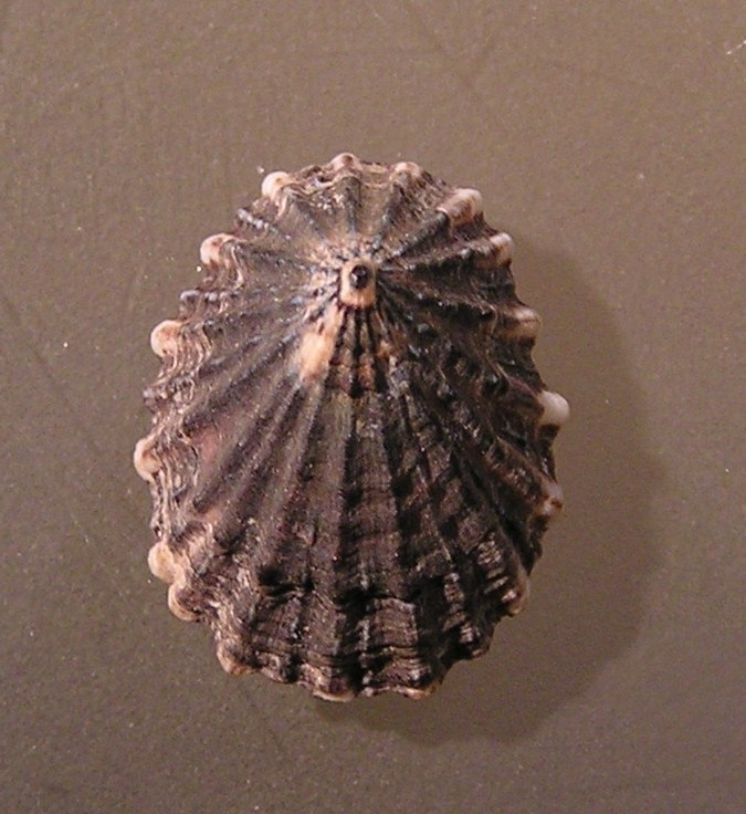 Lottia scabra, synonym: Macklintockia scabra (Gould, 1846); a limpet in the family Nacellidae; California